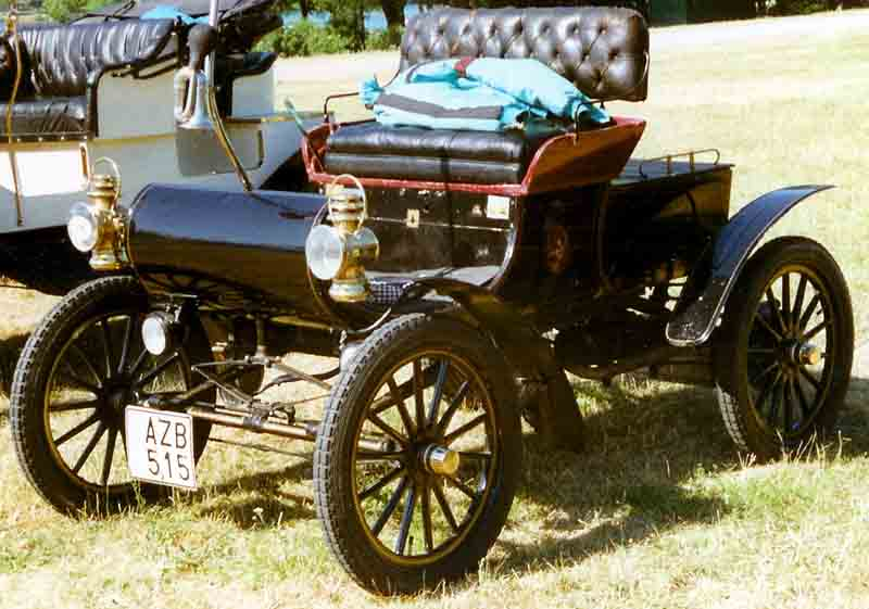 Oldsmobile Model R Curved Dash Runabout 1903